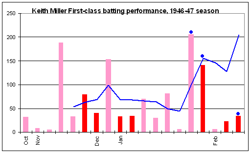 FC batting chart for Keith Miller during the 1946-47 season. Blue line is an average for five most recent innings, blue dots are not outs. Bars are runs scored. Pink for FC, red for Tests.